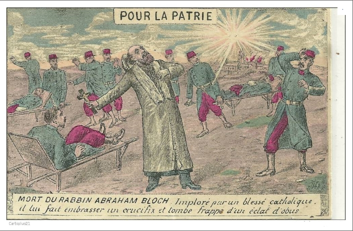 Death of the French rabbi Abraham Bloch during WWI in 1914. Patriotic print